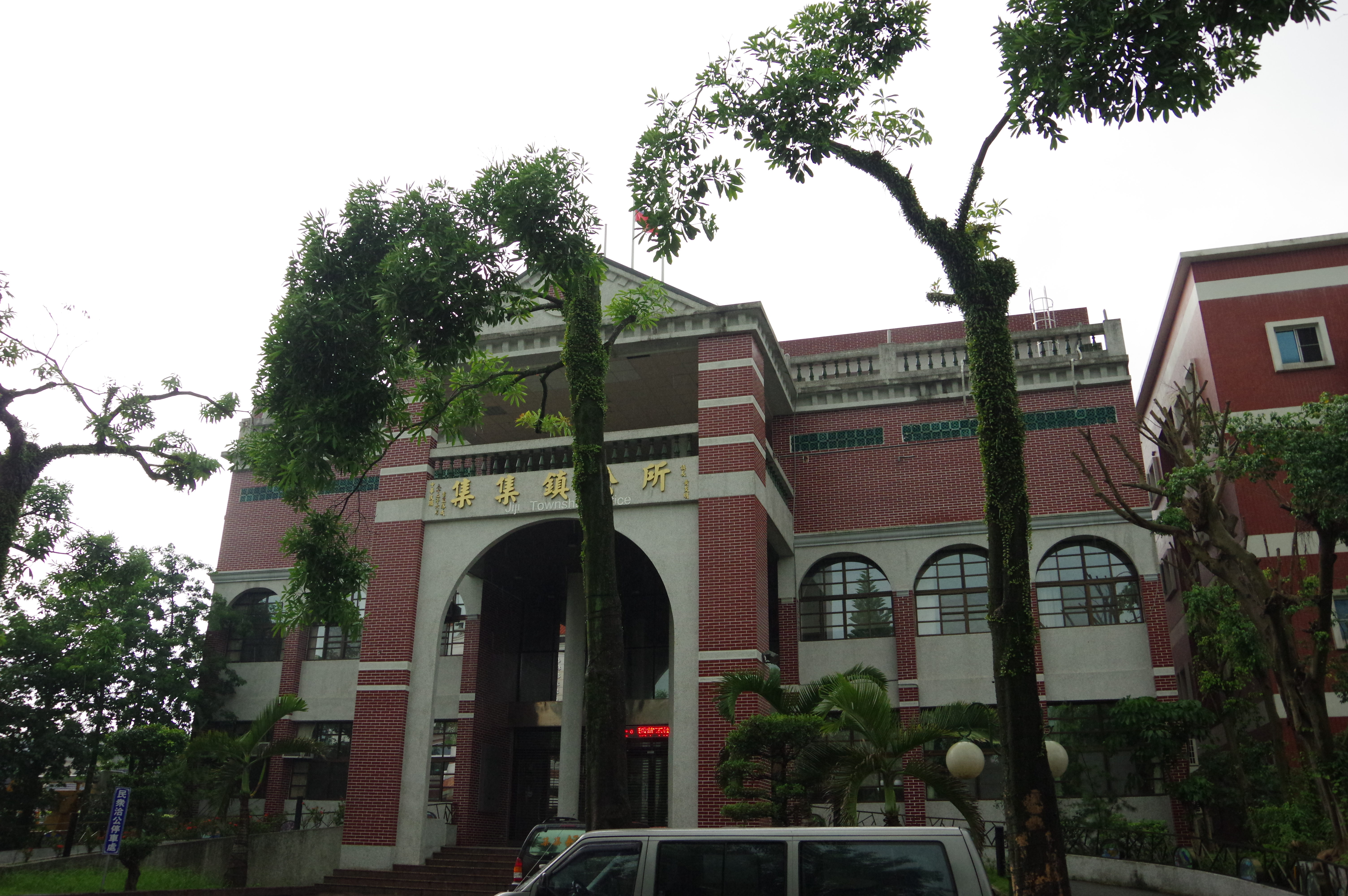 Jiji Township Office, Nantou County.